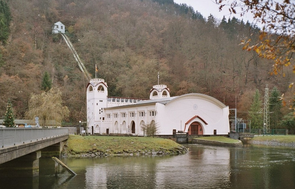 Building of hydro-power-plant Heimbach in the Eifel, Germany.